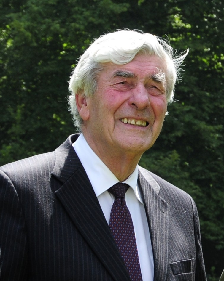 Ruud Lubbers, 2011. Cropped. This file has been extracted from another file: Oud-premiers in de tuin van het Catshuis.jpg